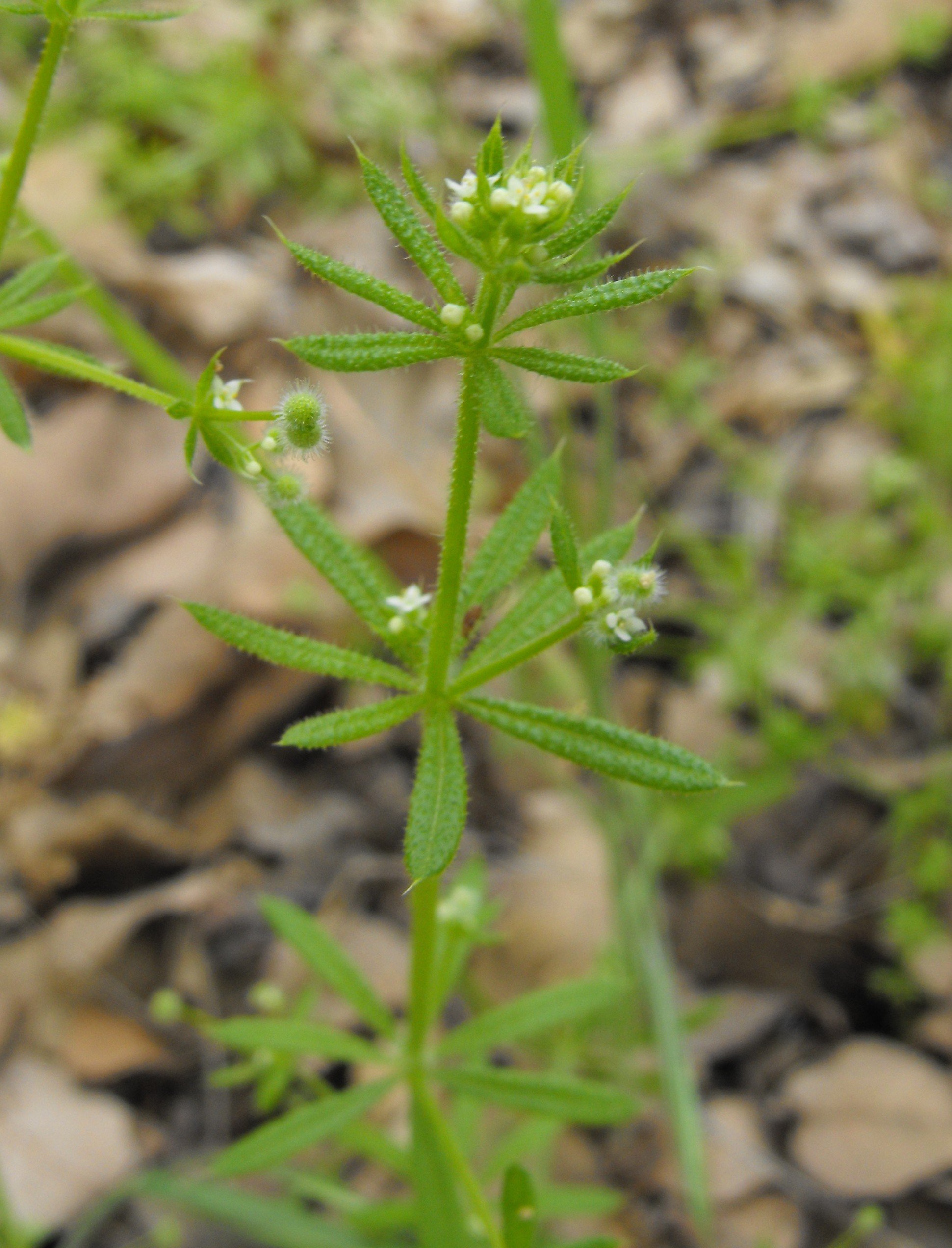 Galium catalinense — Santa Catalina Island bedstraw. Endemic to California coastal sage and chaparral habitats on Catalina Island and San Clemente Island, of the California Channel Islands. Specimen at the San Diego Zoo Safari Park, Escondido, California. Identified by sign.